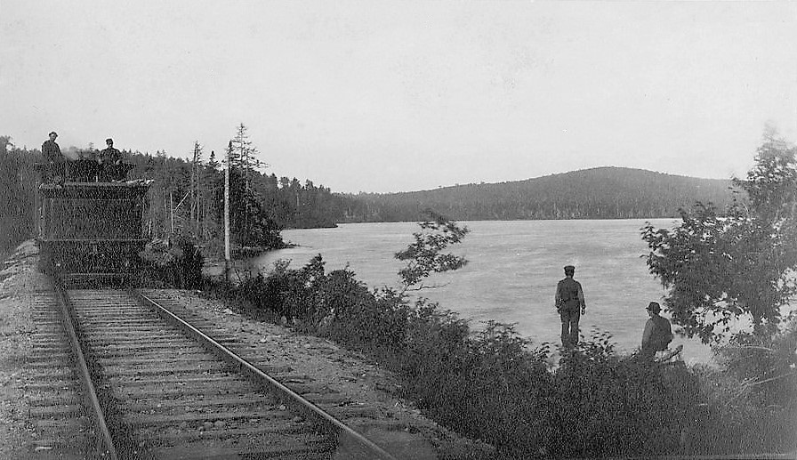 View of Lake Sergent